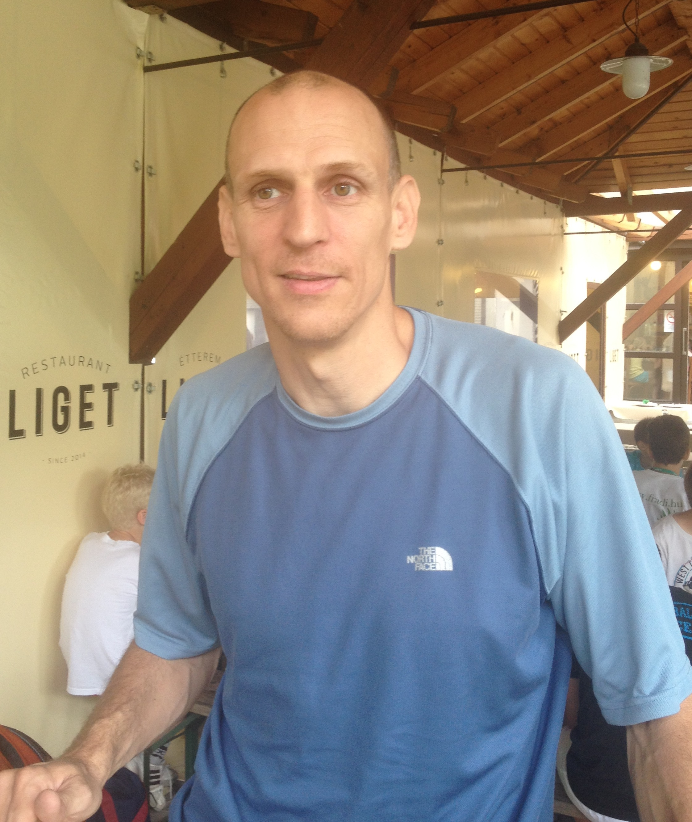 Csillag Levente in Budapest.